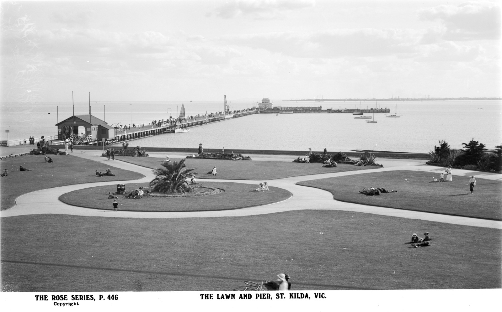 Capturefile: D:\box 28\rg000595.tif CaptureSN: CC001681.018109 Software: Capture One PRO for Windows